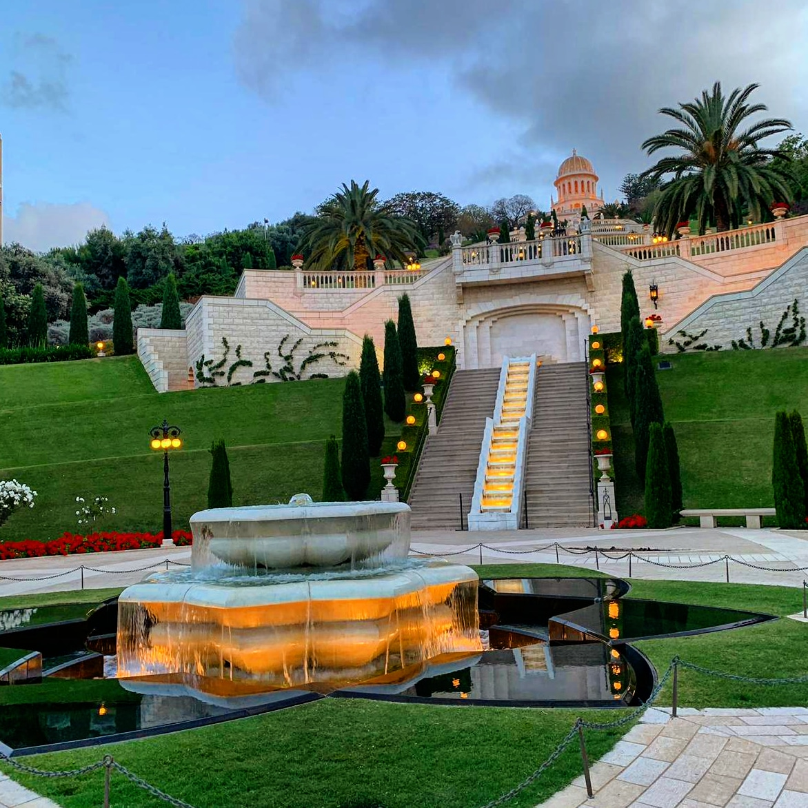 Shrine of the Báb